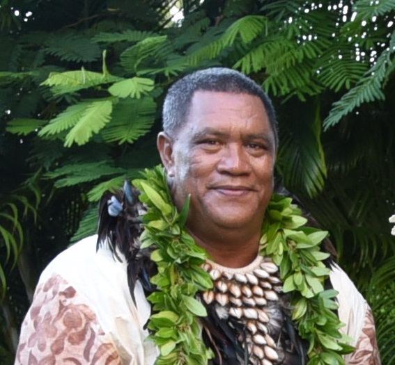 Tou Travel Ariki in March 2017